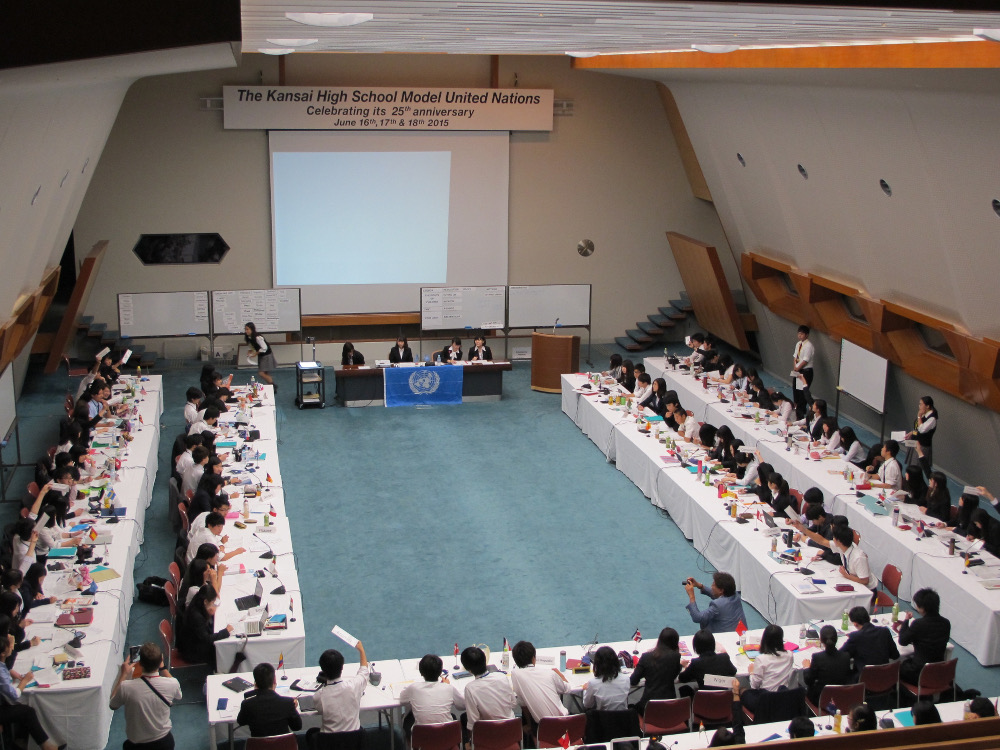 General Assembly of the Kansai High School Model United Nations at Kyoto International Conference Center, Kyoto, Japan